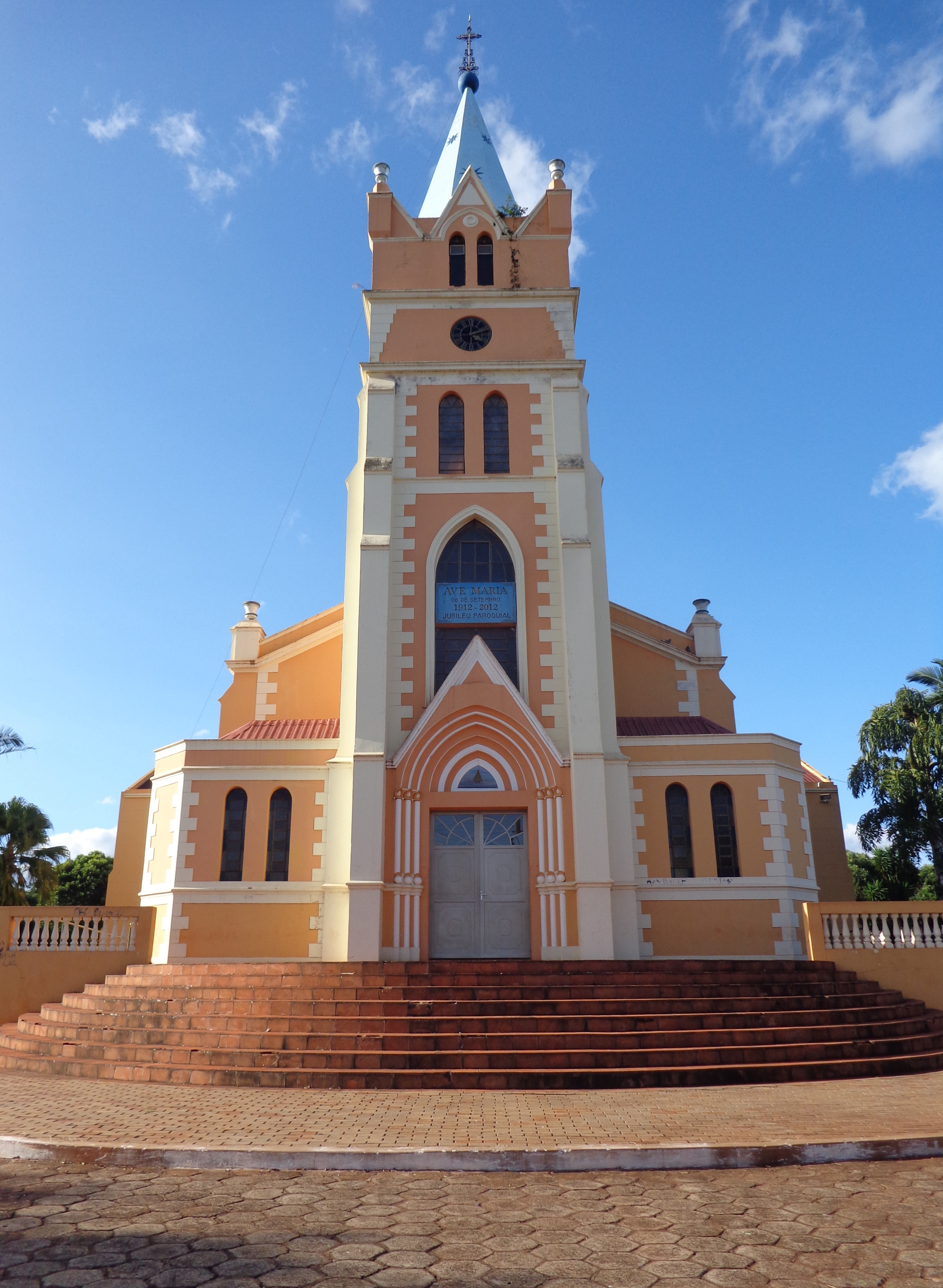 Mother Church of Salto Grande from the front.